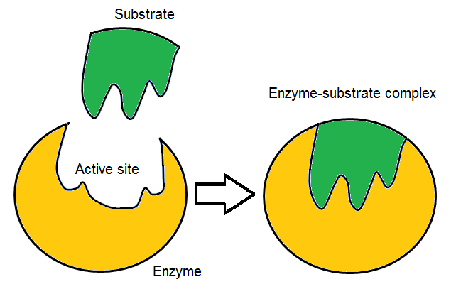 induced fit model